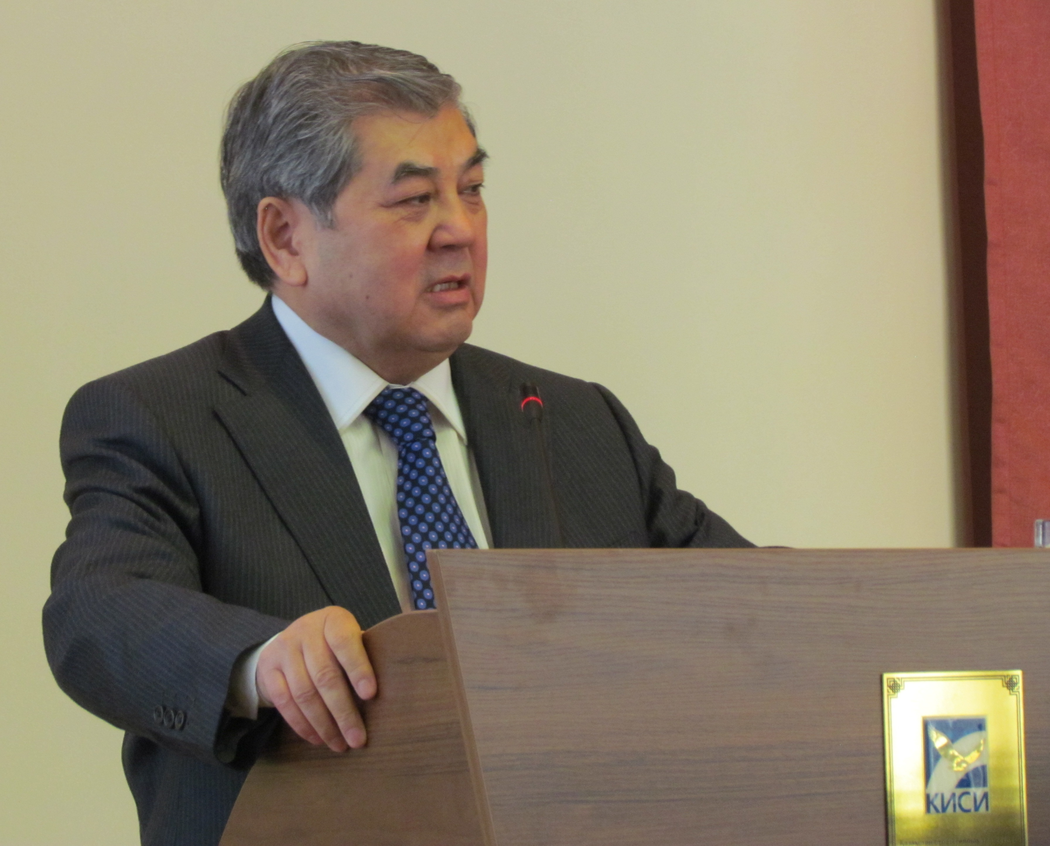 Kuanysh Sultanov